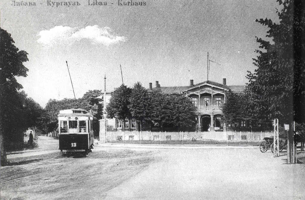 Liepājas tramvajs Nr. 13